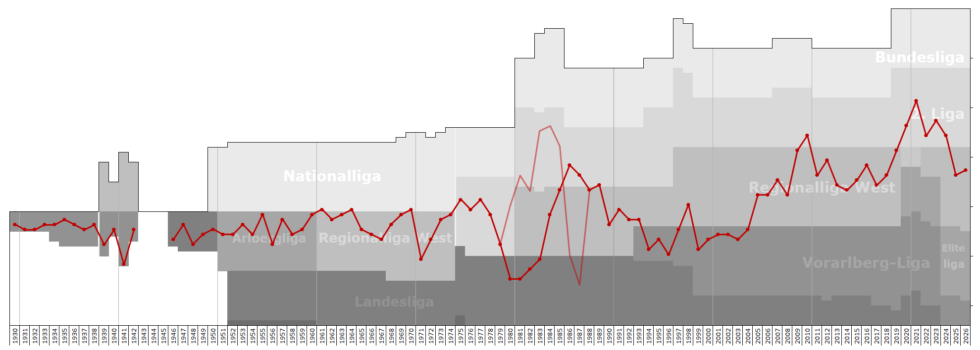 Chart of end-season table positions of Dornbirn in the Austrian football league system. Data source: RSSSF, , regiowiki.at, vfv.at, wikipedia